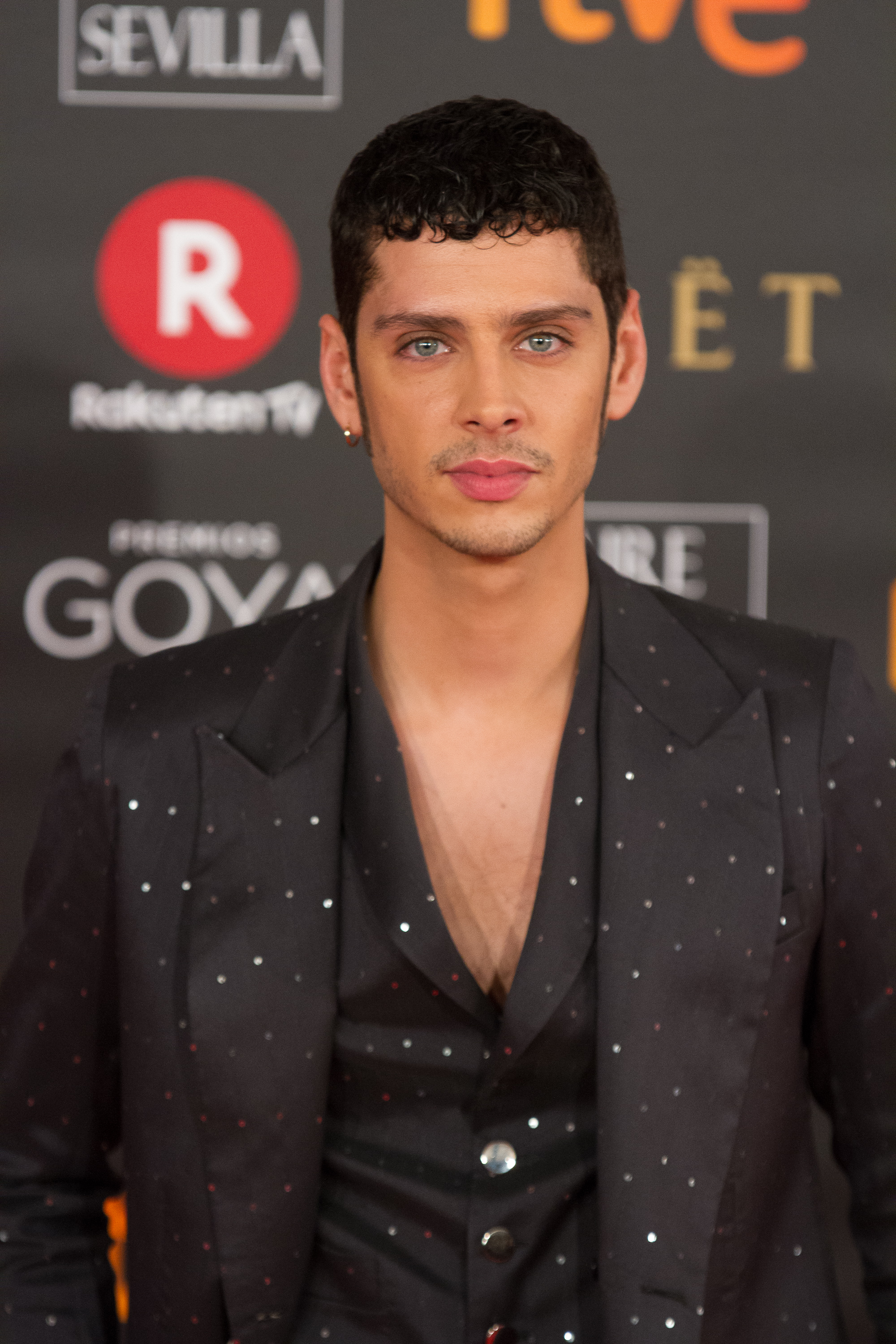 32nd Goya Awards, 2018.